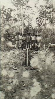 Sourced from: Copyright: The AWM record for this photo states that the copyright status is 'expired - public domain'. The photo was taken in c. 1915. AWM Caption: Bitapaka, New Britain. 1915-01-05. Group portrait of RAN members of the Australian Naval and Military Expeditionary Force (AN&MEF) standing behind a pipe mine which they have been digging out on Bitapaka Road after the taking of the German wireless station on 11 September 1914. These mines were laid by German soldiers beneath the road with wires leading to an electric battery and firing key at the bottom of a lookout tree. Petty Officer Hubert Laurence Maynard Greaves RAN is standing second from the left. Note the dense jungle in the background which the naval men were required to force their way through in order to capture the wireless station. (Donor O. Greaves)